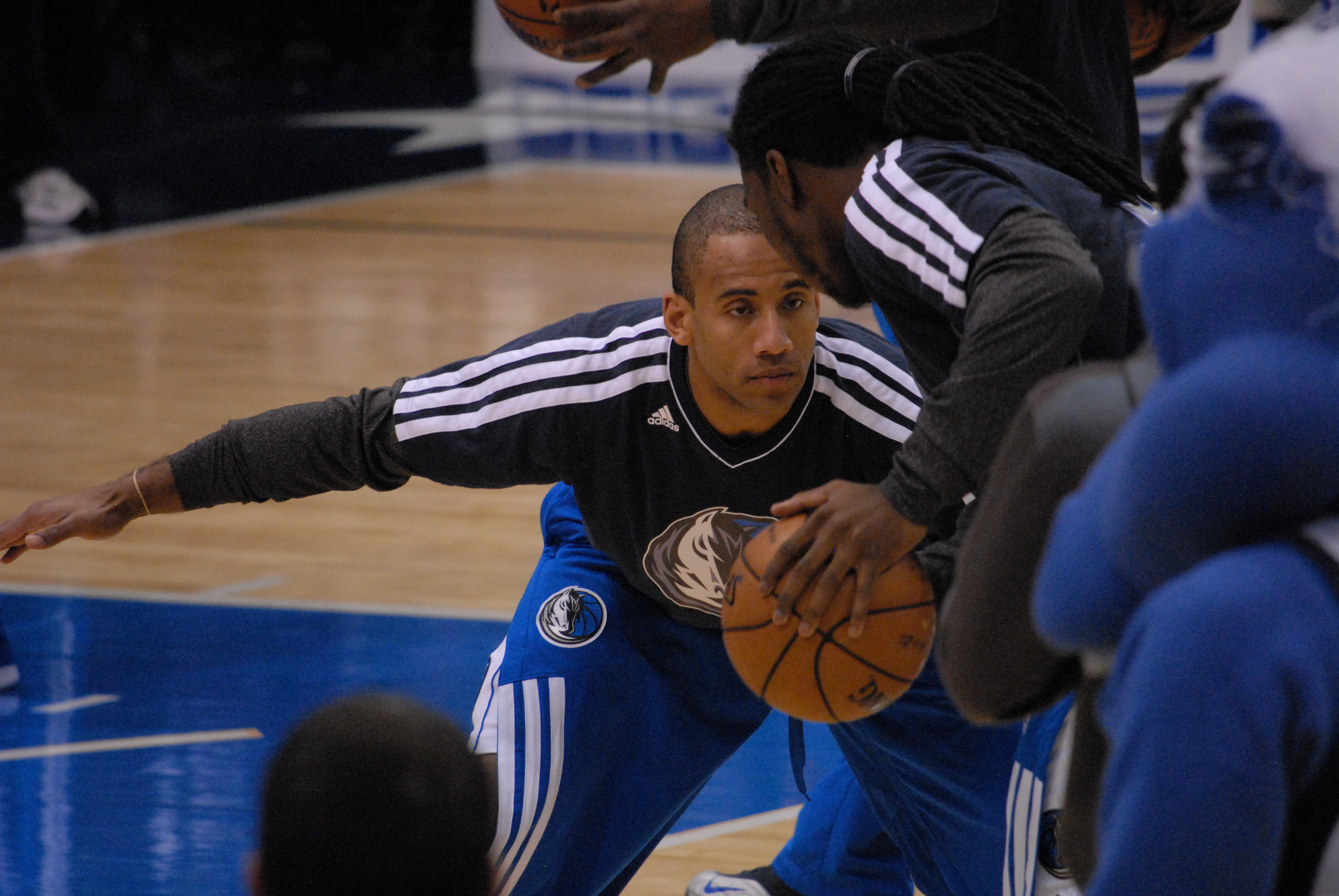 Dahntay Jones of the Dallas Mavericks guarding Jae Crowder during pregame warmups